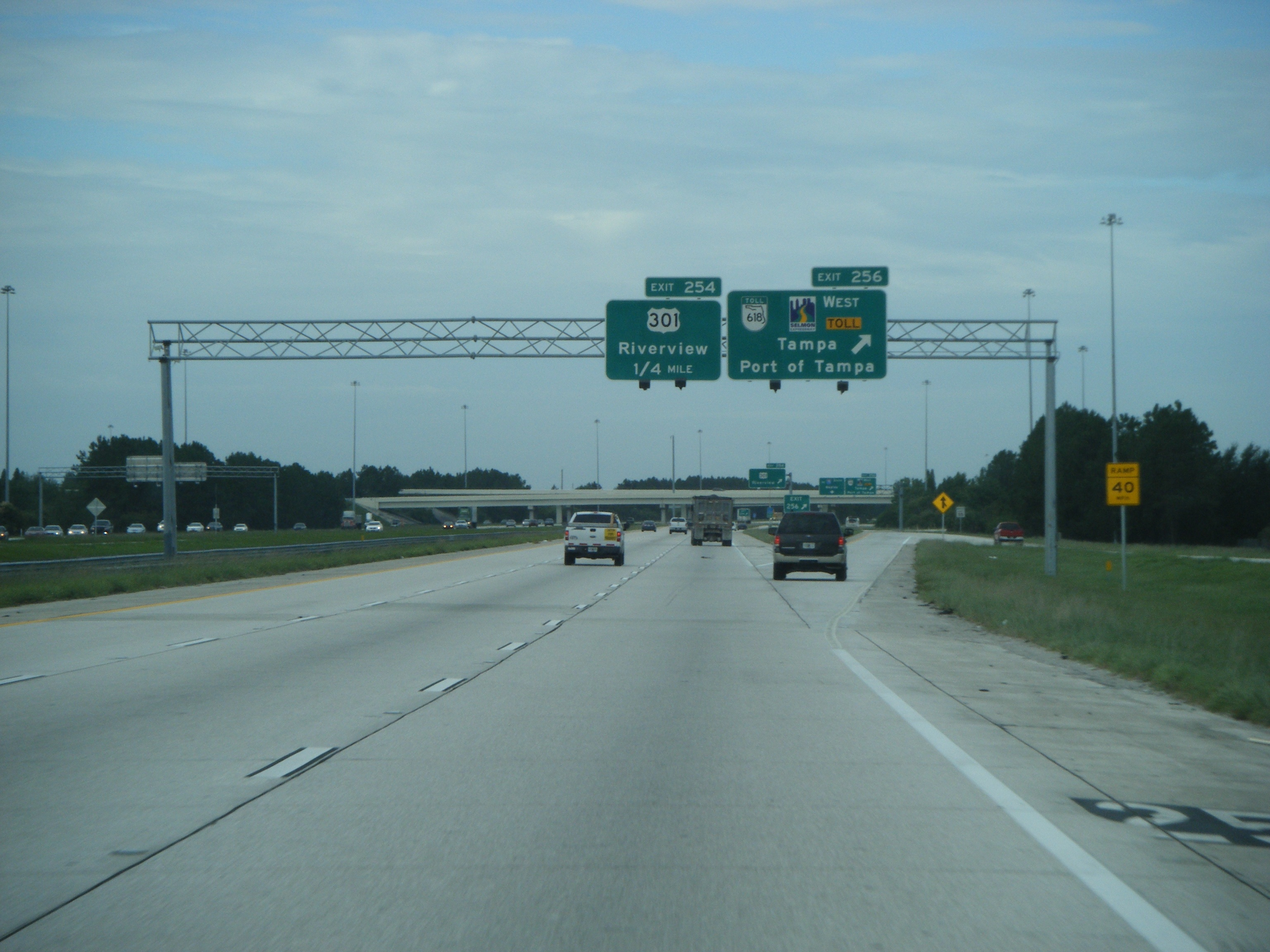 Southbound Interstate 75 at the exit for Florida State Road 618/Lee Roy Selmon Expressway (exit 256) in Brandon